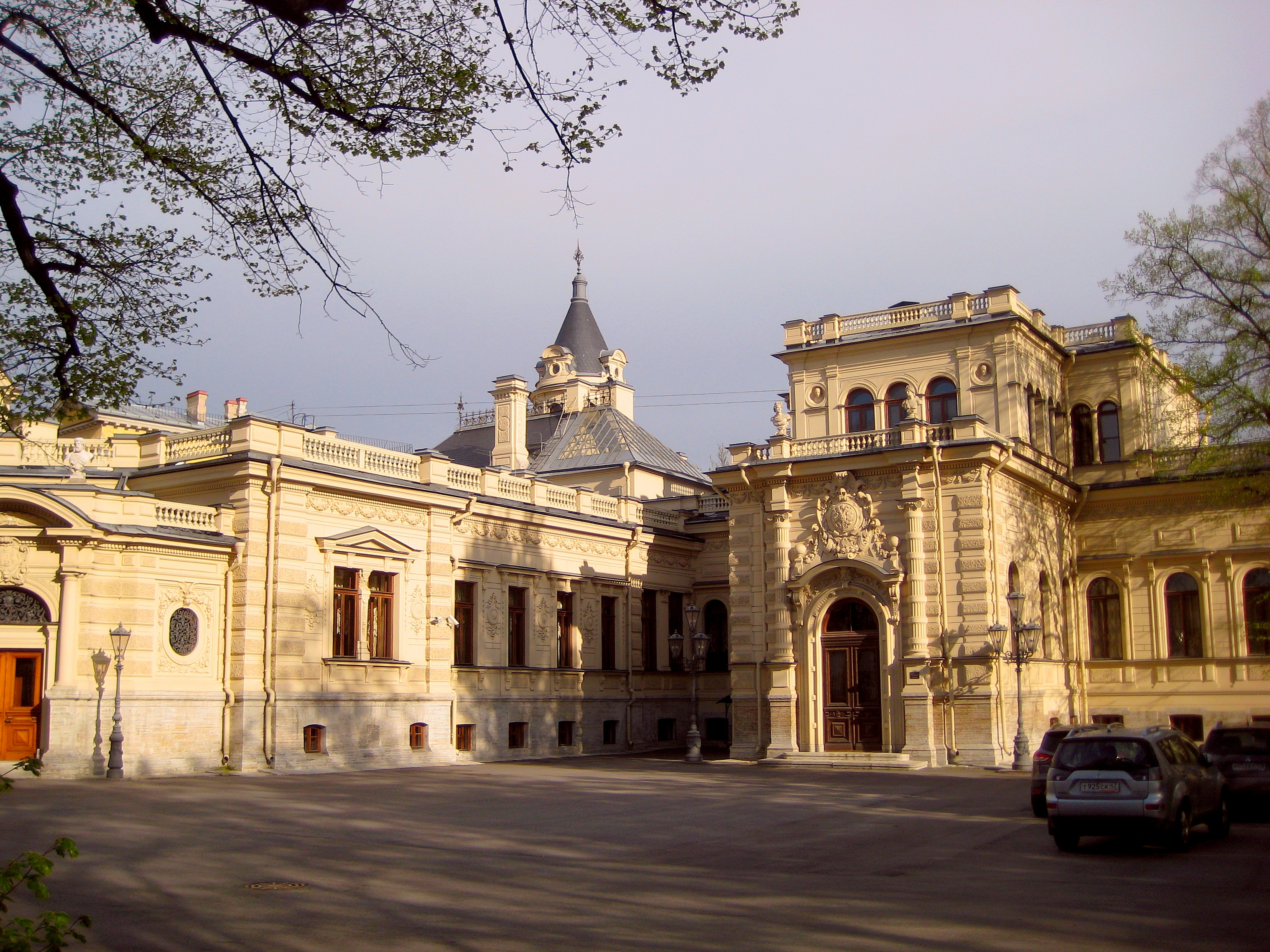 Palace of the Grand Duke Alexei Alexandrovich: embankment of the Moika, 122. Admiralteysky District, St. Petersburg